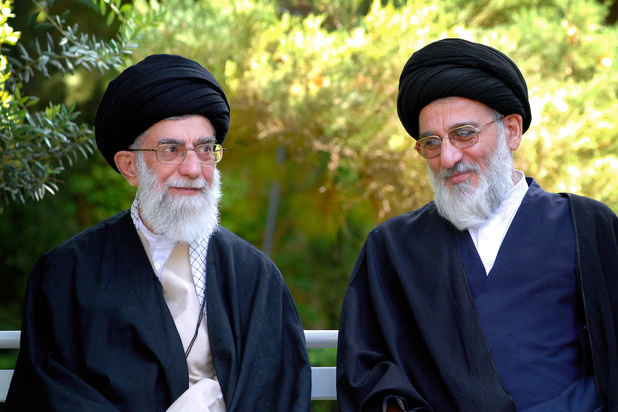 Mahmoud Hashemi Shahroudi